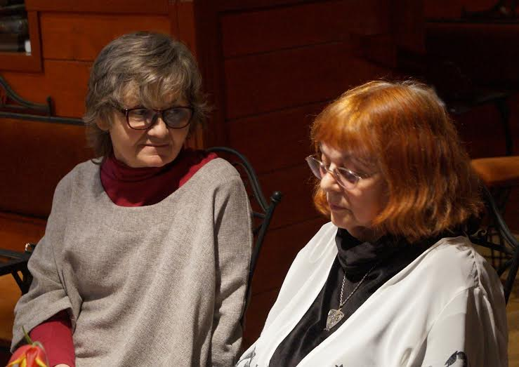 Olga Czilczer book presentation Levitation (2015 04 15); Moderator historian Giselle Keserű